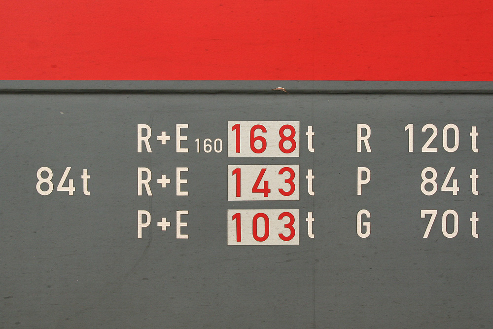 A list of braking forces on a DB class 101 locomotive